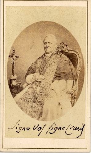 Portrait of Pope Pius IX.